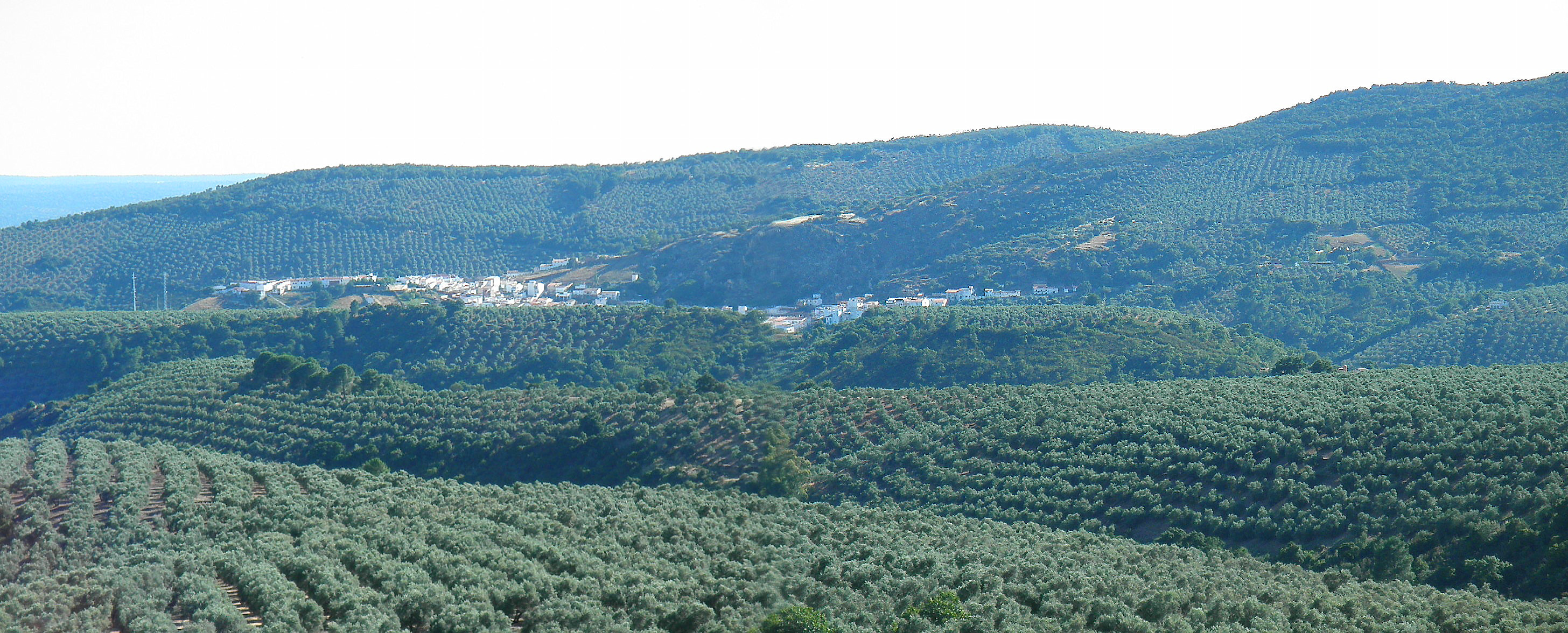 Panorama of Fuencaliente from Peña Escrita,, Sierra Madrona, Spain